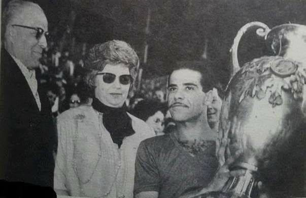 اللاعب الدولي التونسي السابق يتسلم كأس تونس من الرئيس التونسي السابق الحبيب بورقيبة